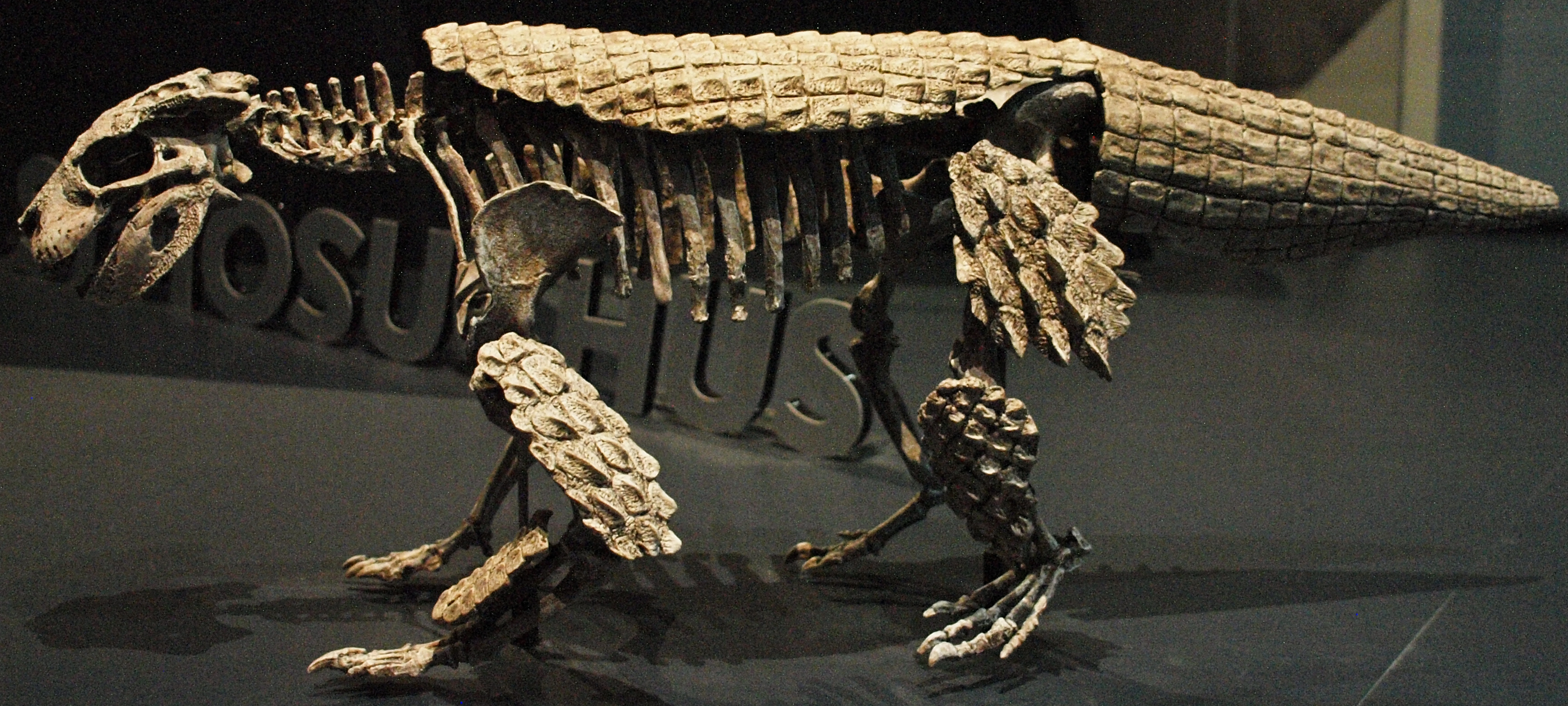 Simosuchus on Display at the Royal Ontario Museum